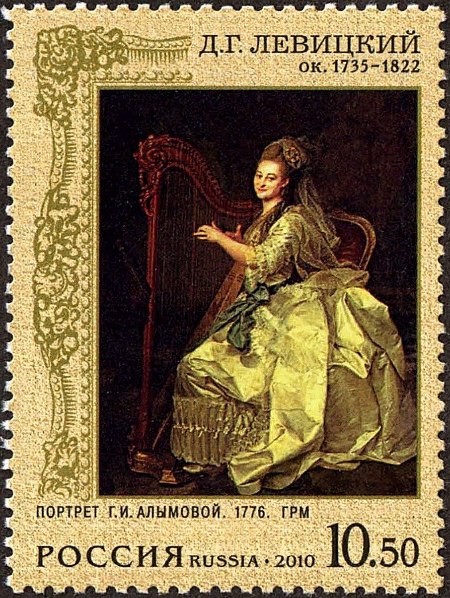 275th birth anniversary of Dmitry Levitzky (1735–1822), an Ukrainian-born Russian painter.The Portrait of Glafira Alymova. 1776.The stamp of Russia, 10.50 Rubles, 7 June 2010, PTC Marka Catalogue No 1417, Michel No 1649. Coated paper. Offset printing, varnish coating. Perforation: comb 11½×12. Size of the stamp: 37×50 mm. Print run: 400,000.